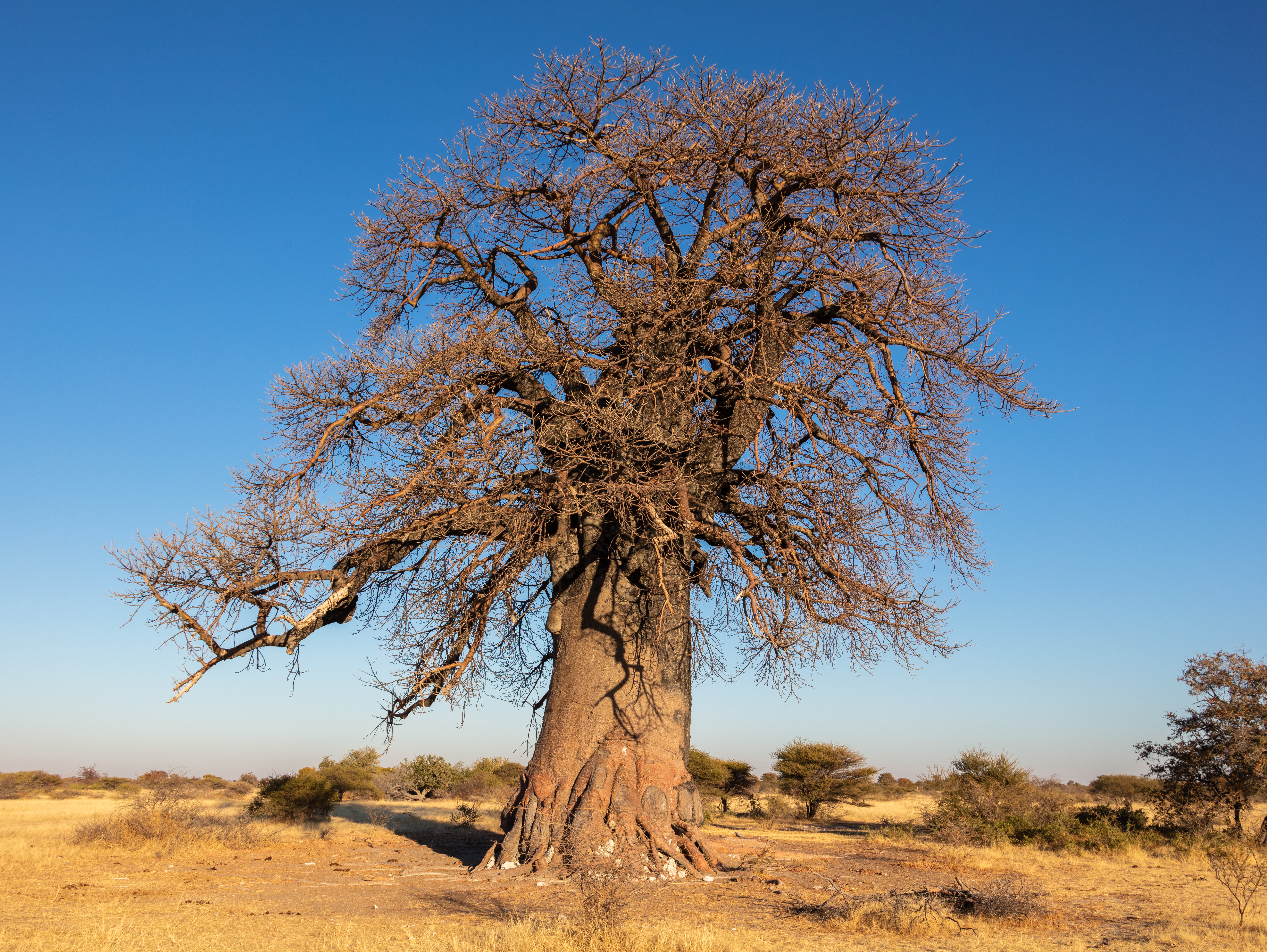 Baobab (Adansonia digitata), Makgadikgadi Pans National Park, Botswana